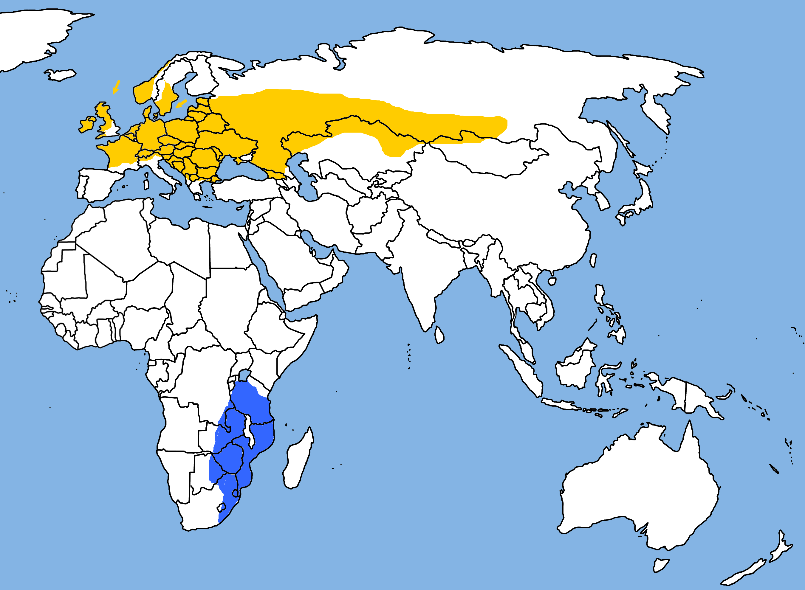 Autor: Ulrich Prokop (Scops)